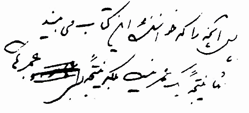 Handwriting of Ali-Akbar Dehkhoda, about his Loghatnameh.